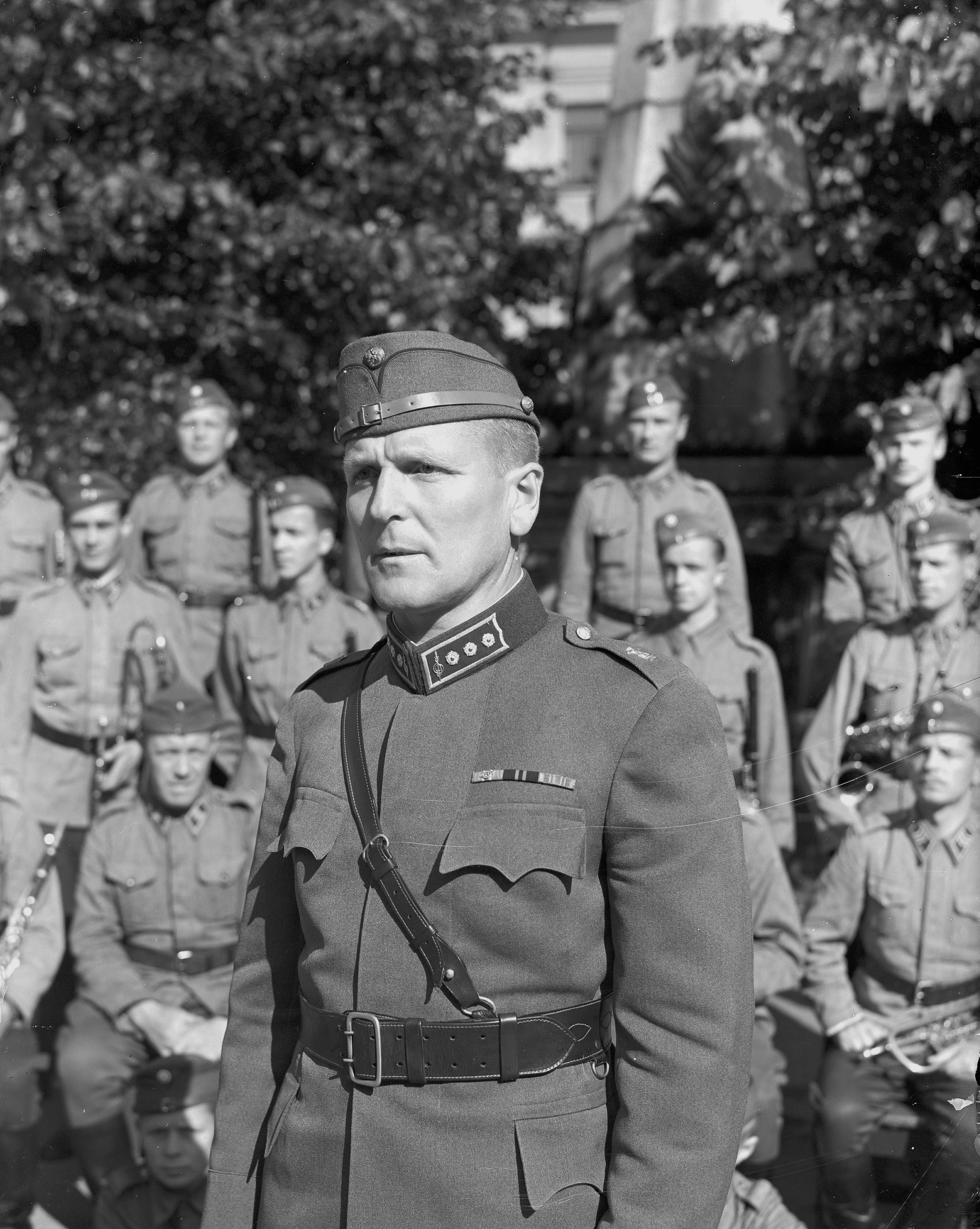 Photograph of the Finnish army conductor Artturi Rope (1903–1976).